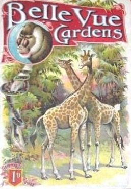 Official guide to the Zoological Gardens, Belle Vue, Manchester.